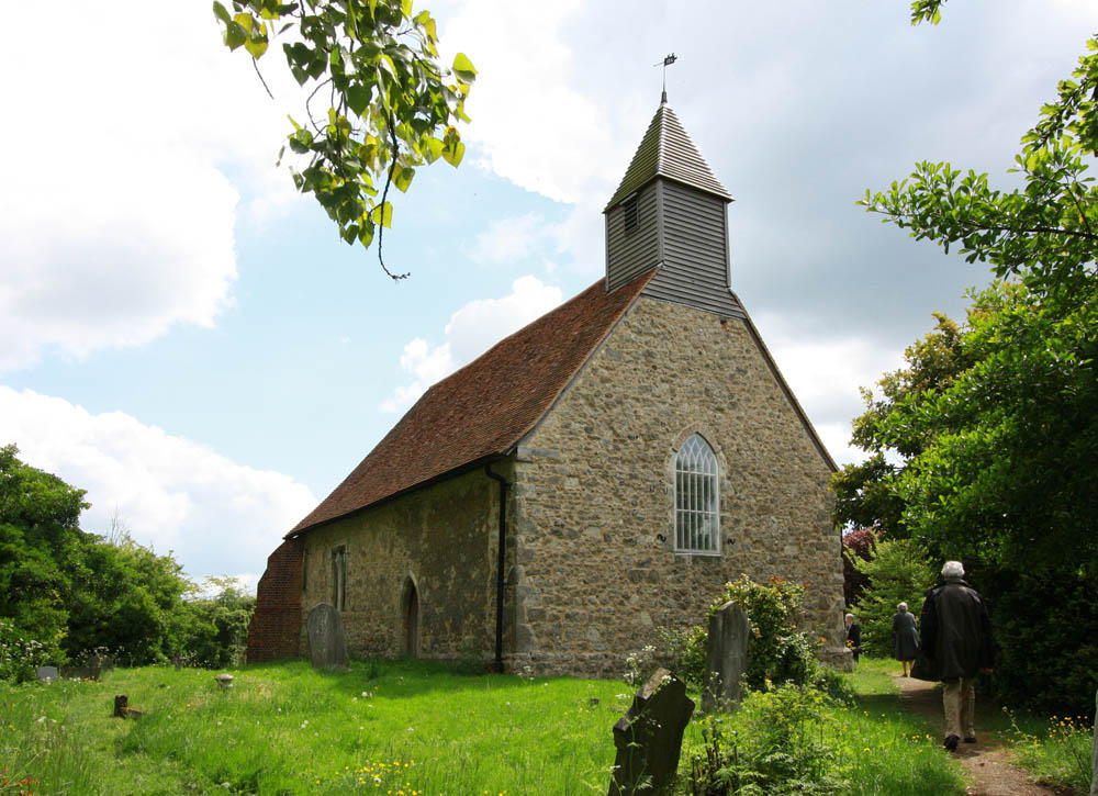 Photograph of Vange Church